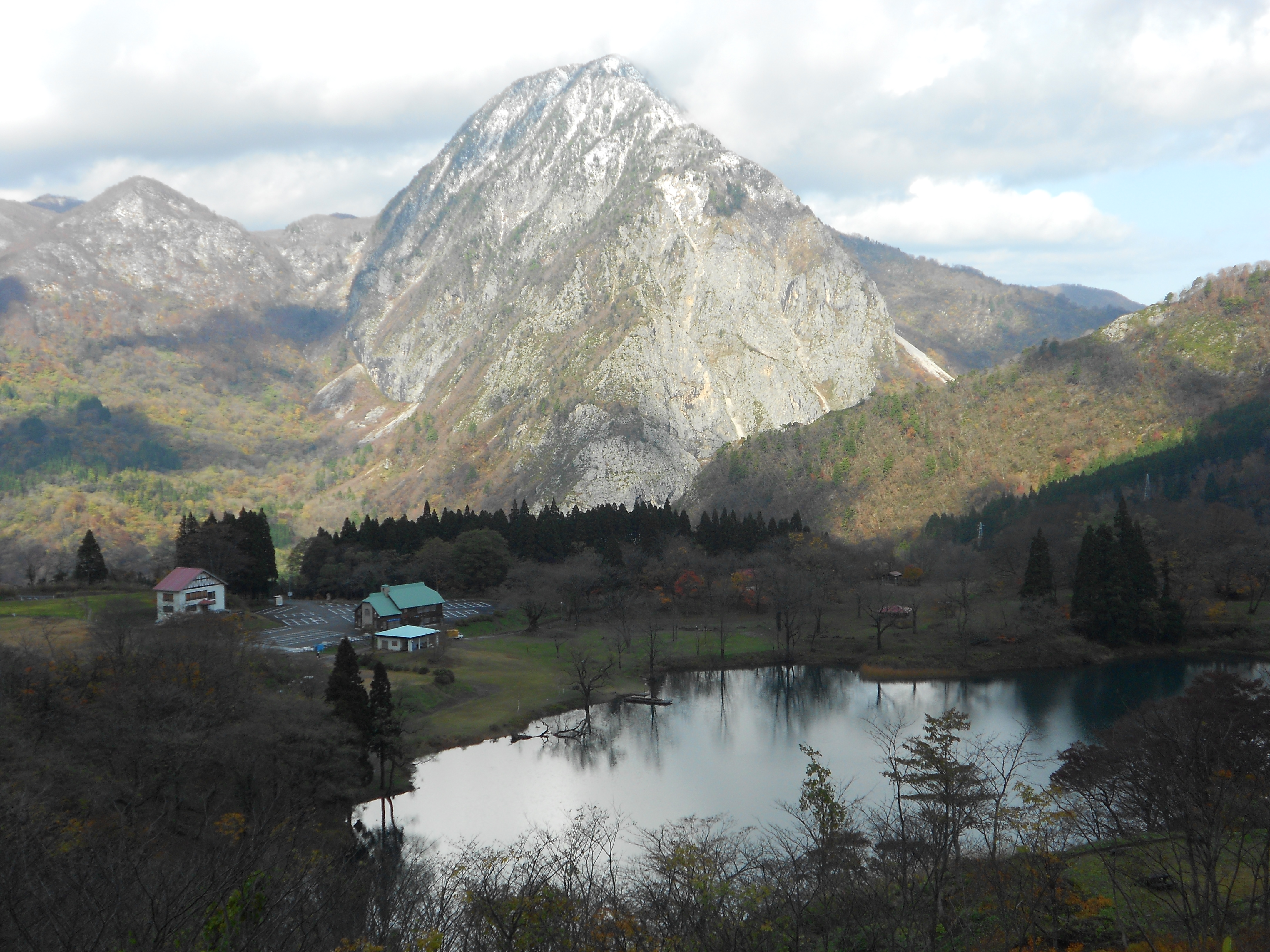 Takanami Pond and Mount Myojo